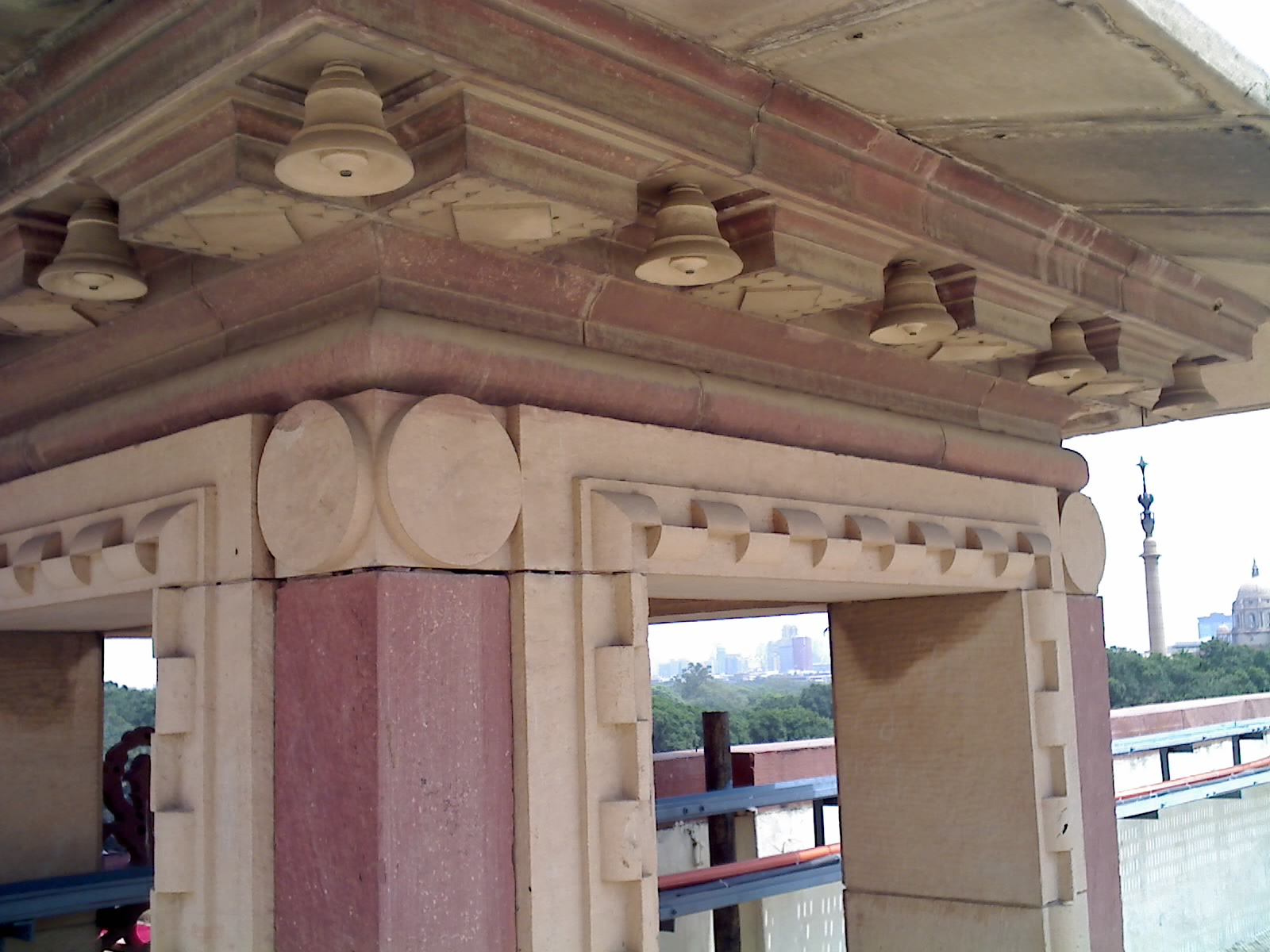 Bells on the roof of Rashtrapati Bhawan.